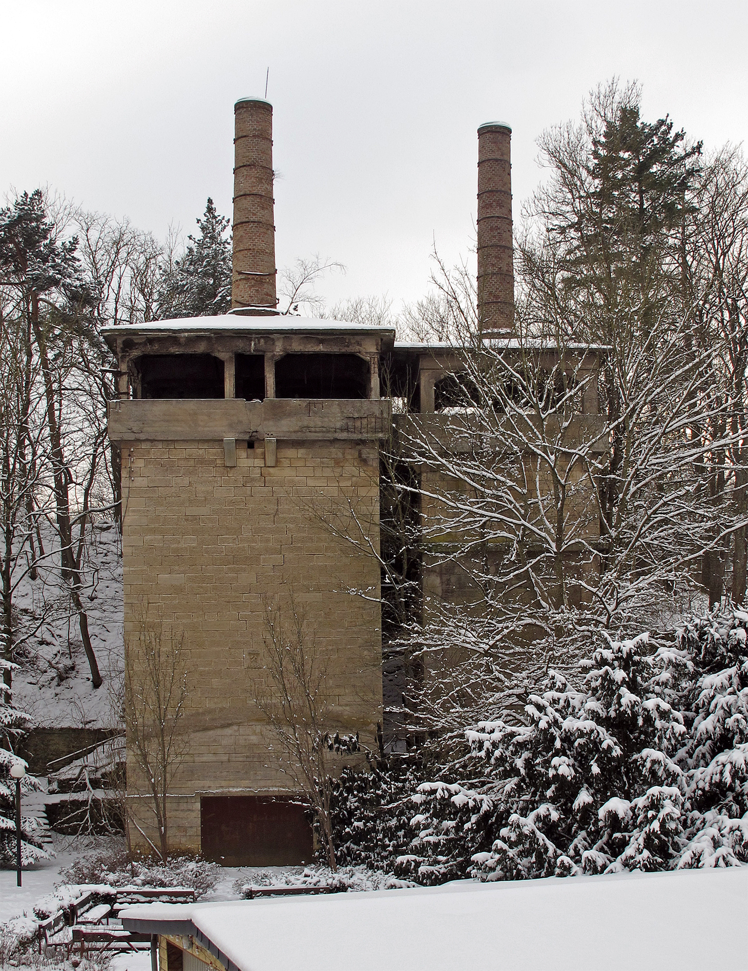 Former chalk ovens in Rumelange (Kierchbierg), Luxembourg